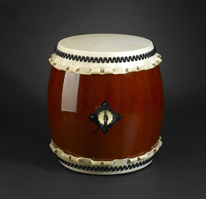 A traditional Japanese Taiko drum - called a "Miya-Daiko" Eine typische japanische Taiko trommel - "Miya-Daiko"